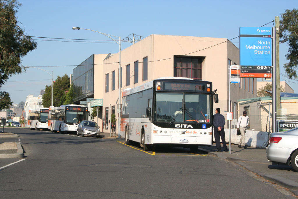 Volgren CR228L bodied Volvo B12BLE route 401 bus (6729-AO, built 2008), at North Melbourne railway station.